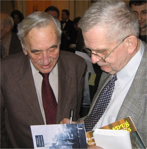 Tomas Venclova (b. 1937), Lithuanian poet and essayist and Tadeusz Mazowiecki (1927-2013), Polish journalist and politician